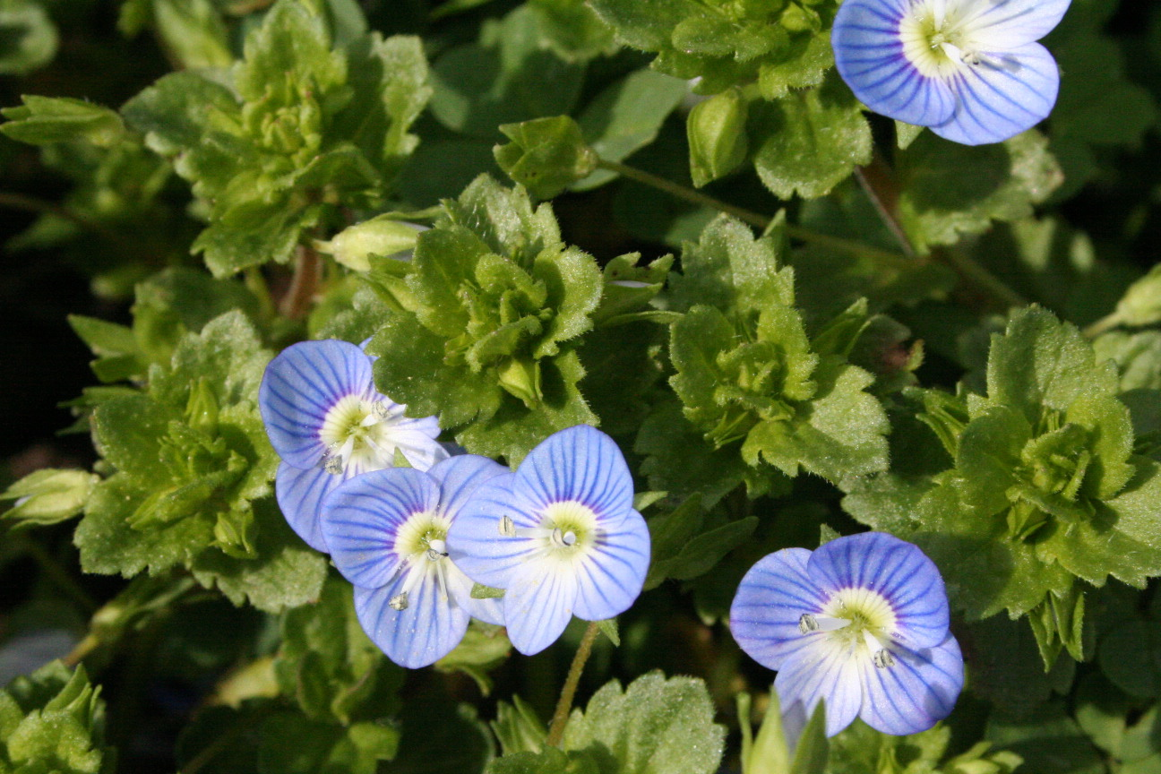 Veronica persica (Large Field Speedwell) in a park near Paris.